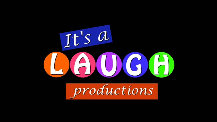 It's a Laugh Productions logo